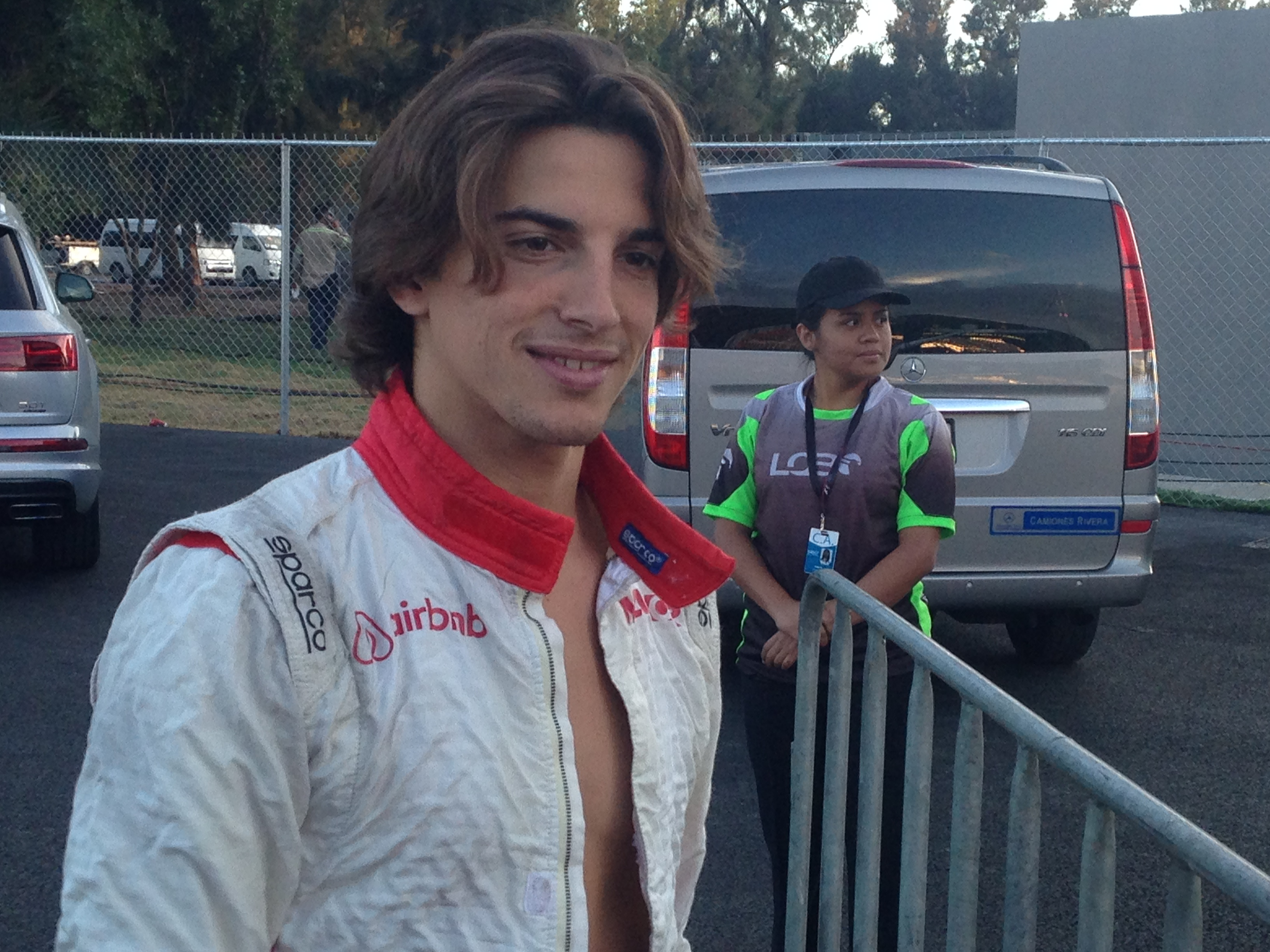 PitWalk Mexican Grand Prix 2015, Autódromo Hermanos Rodríguez. Mexico City, Mexico.